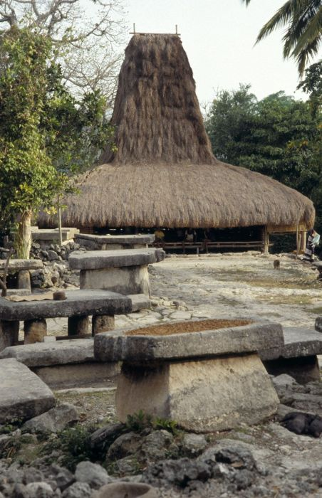 Graves in front of a house at Tarung